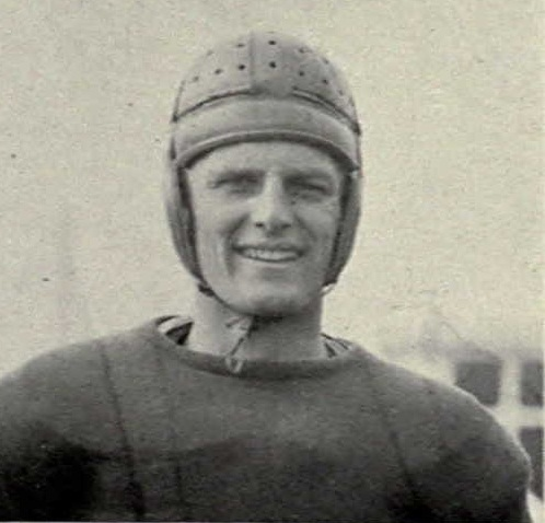 Photograph of Paul G. Goebel This work is in the public domain because it was published in the United States between 1923 and 1963 and although there may or may not have been a copyright notice, the copyright was not renewed. Unless its author has been dead for the required period, it is copyrighted in the countries or areas that do not apply the rule of the shorter term for US works, such as Canada (50 pma), Mainland China (50 pma, not Hong Kong or Macao), Germany (70 pma), Mexico (100 pma), Switzerland (70 pma), and other countries with individual treaties. See Commons:Hirtle chart for further explanation. This work is in the public domain because it was published in the United States between 1923 and 1977 and without a copyright notice. Unless its author has been dead for several years, it is copyrighted in jurisdictions that do not apply the rule of the shorter term for US works, such as Canada (50 p.m.a.), Mainland China (50 p.m.a., not Hong Kong or Macao), Germany (70 p.m.a.), Mexico (100 p.m.a.), Switzerland (70 p.m.a.), and other countries with individual treaties. See this page for further explanation.